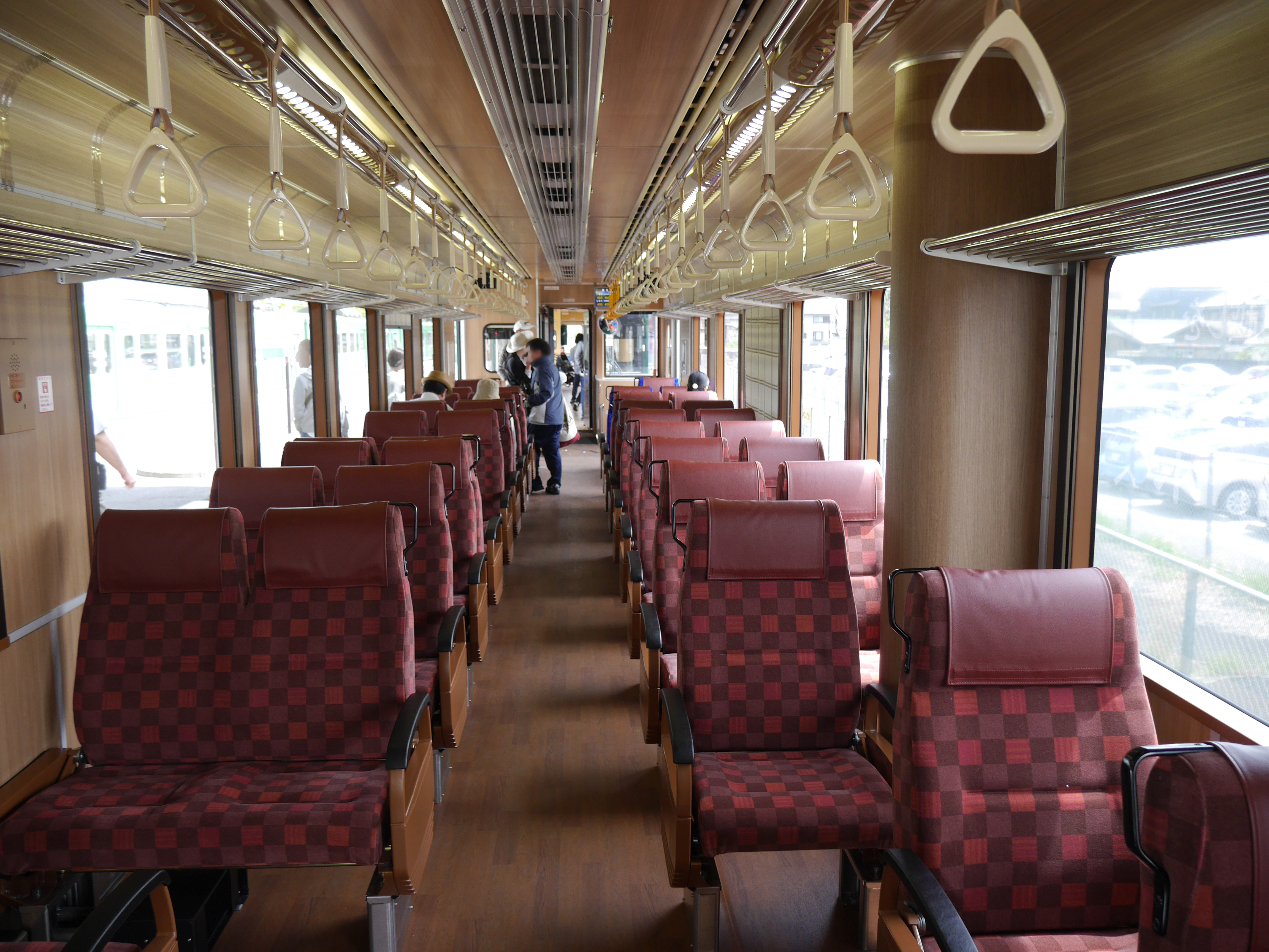 Inside Shigaraki Kogen Railway SKR501